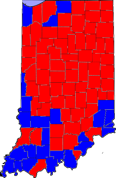 1980 Indiana Senate election results by county.